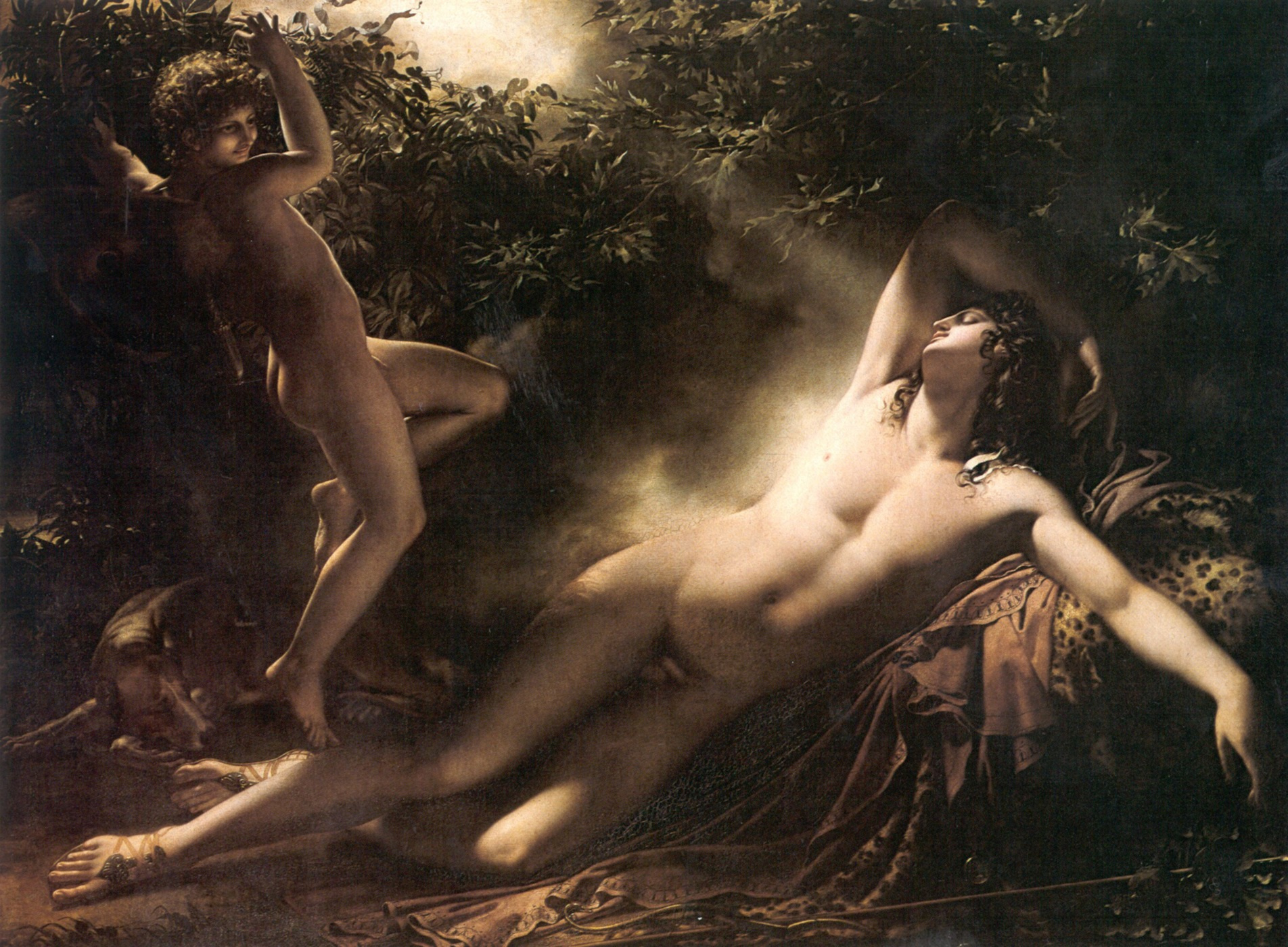 The Sleep of Endymionlabel QS:Len,"The Sleep of Endymion"label QS:Lfr,"Endymion : Effet de lune, ou Le Sommeil d’Endymion"